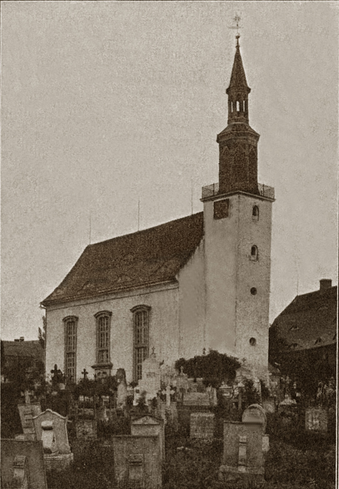 Church in Rybarzowice, Reibersdorf - photo from the early years of the twentieth century